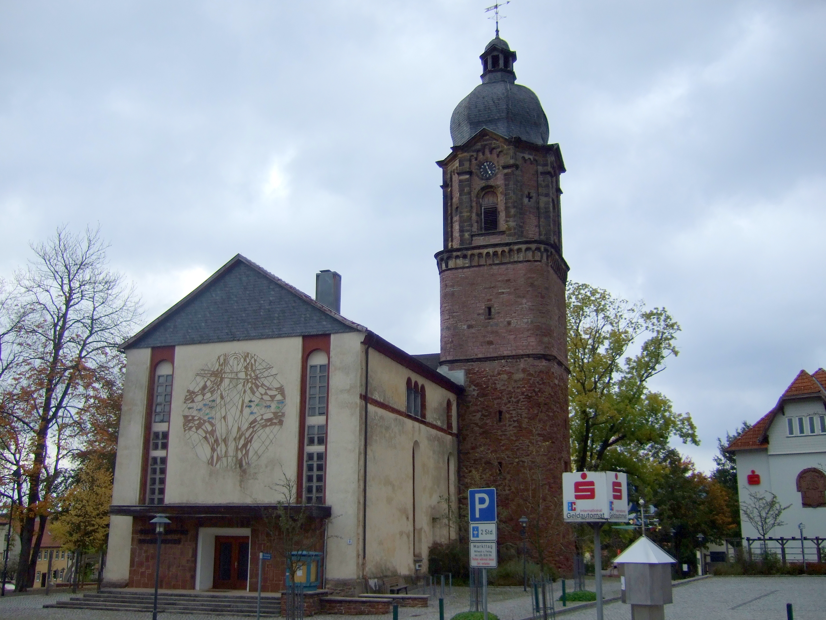 Church Lutherkirche in Tambach-Dietharz, Germany, 2007.